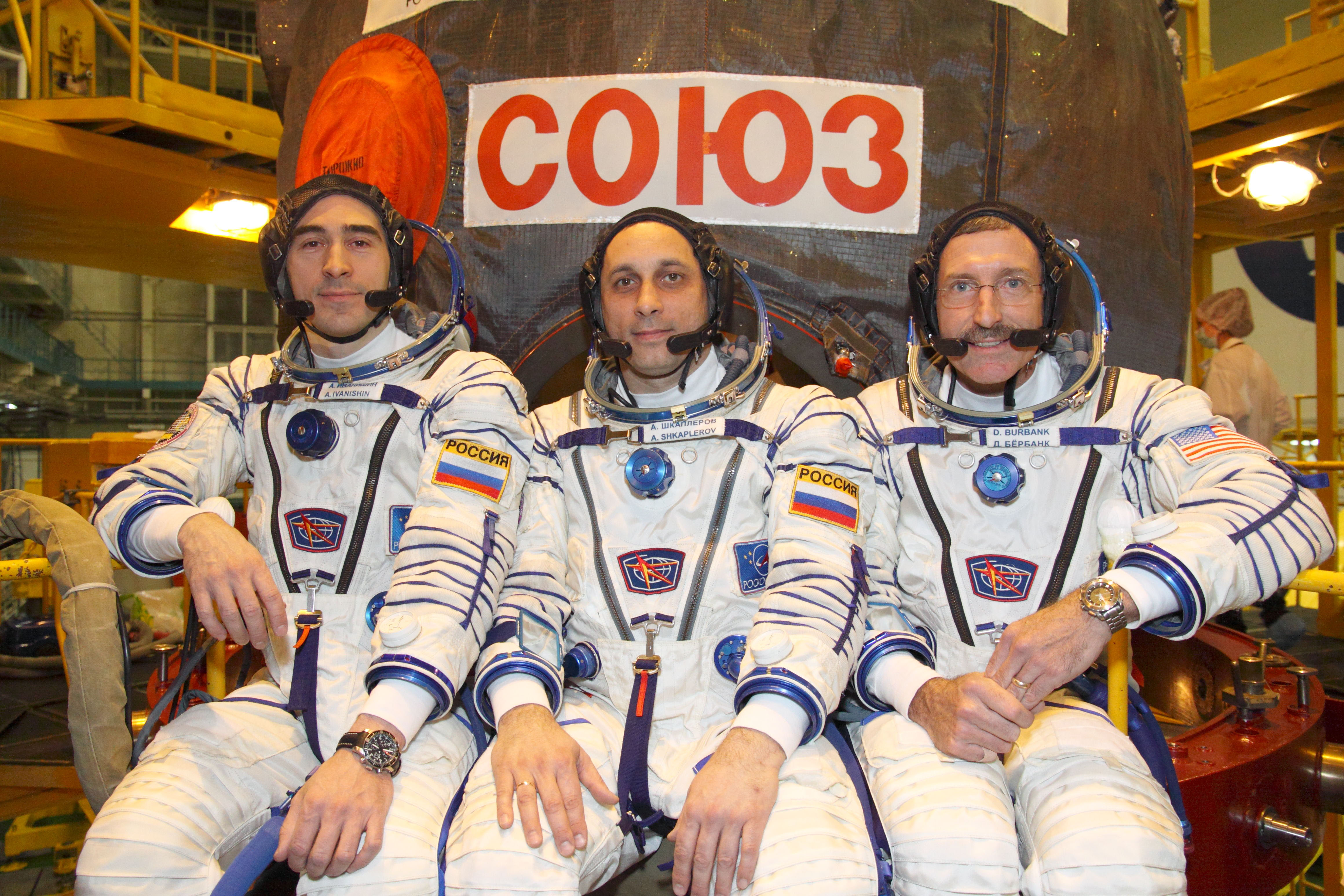 At the Integration Facility at the Baikonur Cosmodrome in Kazakhstan, the next trio of residents that will launch to the International Space Station pose for pictures Nov. 1, 2011 following the first of two "fit checks" of their Soyuz TMA-22 spacecraft. Two cosmonauts – flight engineer Anatoly Ivanishin (left), and Soyuz Commander Anton Shkaplerov (center) – joined by Expedition 30 commander Dan Burbank (right) of NASA, will launch on Nov. 14 from Baikonur to spend four months on the orbital laboratory.